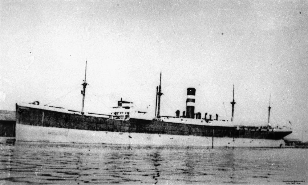 T&J Harrison 8,258 GRT cargo steamship SS Defender, built in 1915 in Glasgow by C Connell & Co and scrapped in 1952.